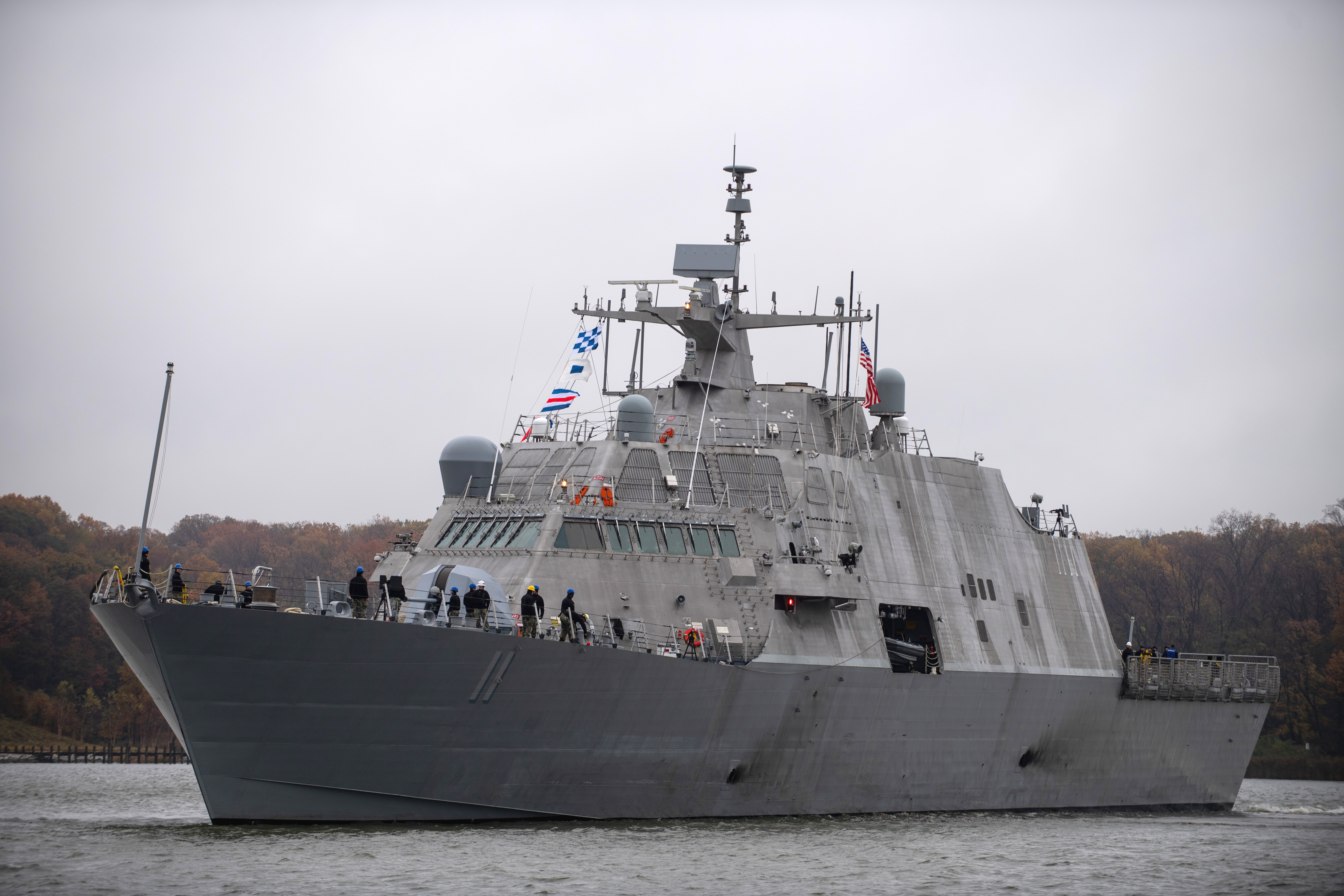 The U.S. Navy littoral combat ship USS Sioux City (LCS-11) underway on the Severn River, Maryland (USA), on 13 November 2018, before it arrived at the U.S. Naval Academy in Annapolis, Maryland (USA). Sioux City was commissioned at Annapolis on 17 November 2018.